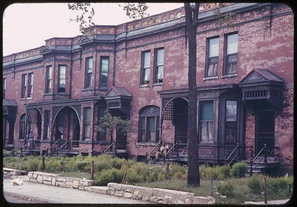 Description: A row of South Side 2-story apartments, now part of black belt. West side of 3200 block of St. Lawerence. Creator: Cushman, Charles Weever, 1896-1972 View source image or order reproductions. More information on the commercial rights for this photo. Part of Charles W. Cushman Collection Indiana University, Bloomington. University Archives. Brought to you by IMLS Digital Collections and Content. Unrestricted access; use with attribution. Chicago